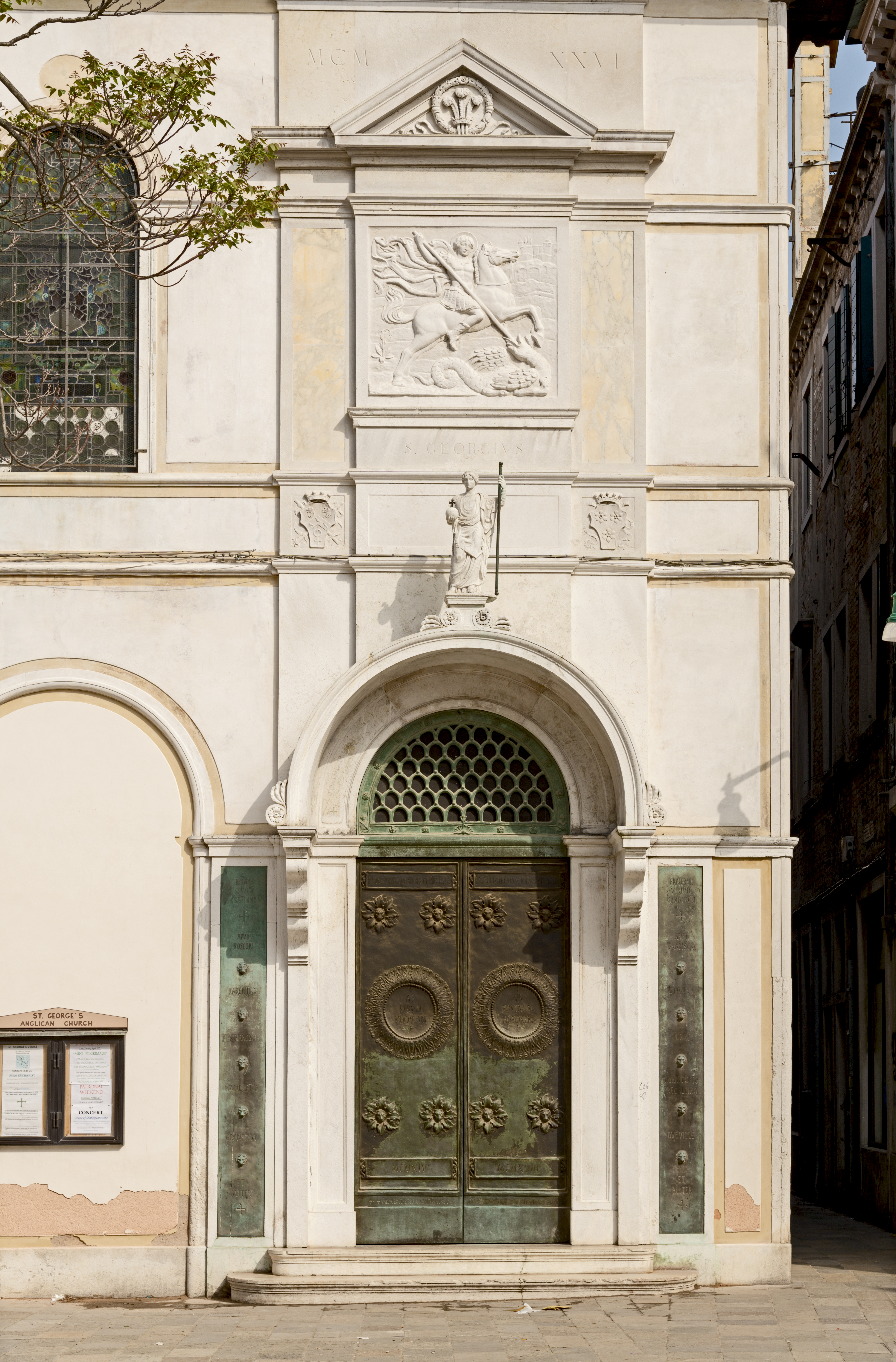 Anglican church Saint George, in Venice. Entrance.